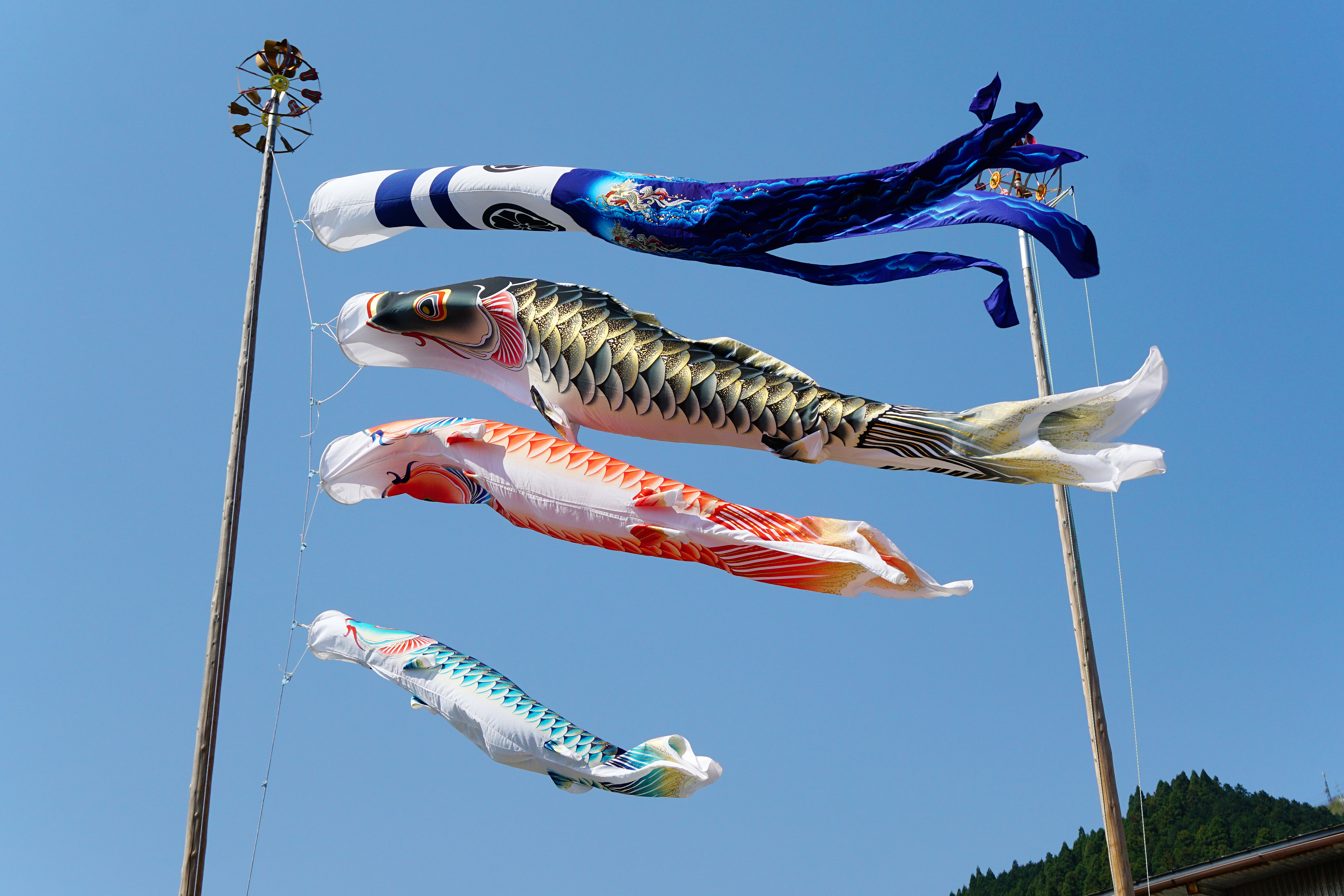 Koinobori at Chizu, Tottori prefecture, Japan